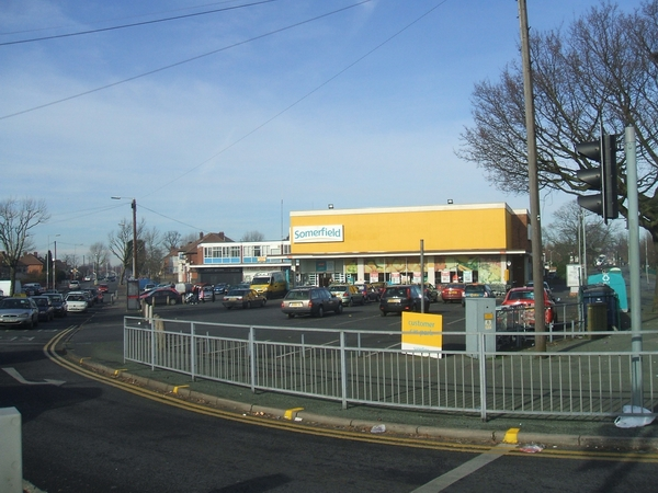 Fallings Park Shopping Centre The supermarket and shopping centre were built in the early 1960s on the site of the Clifton Cinema.